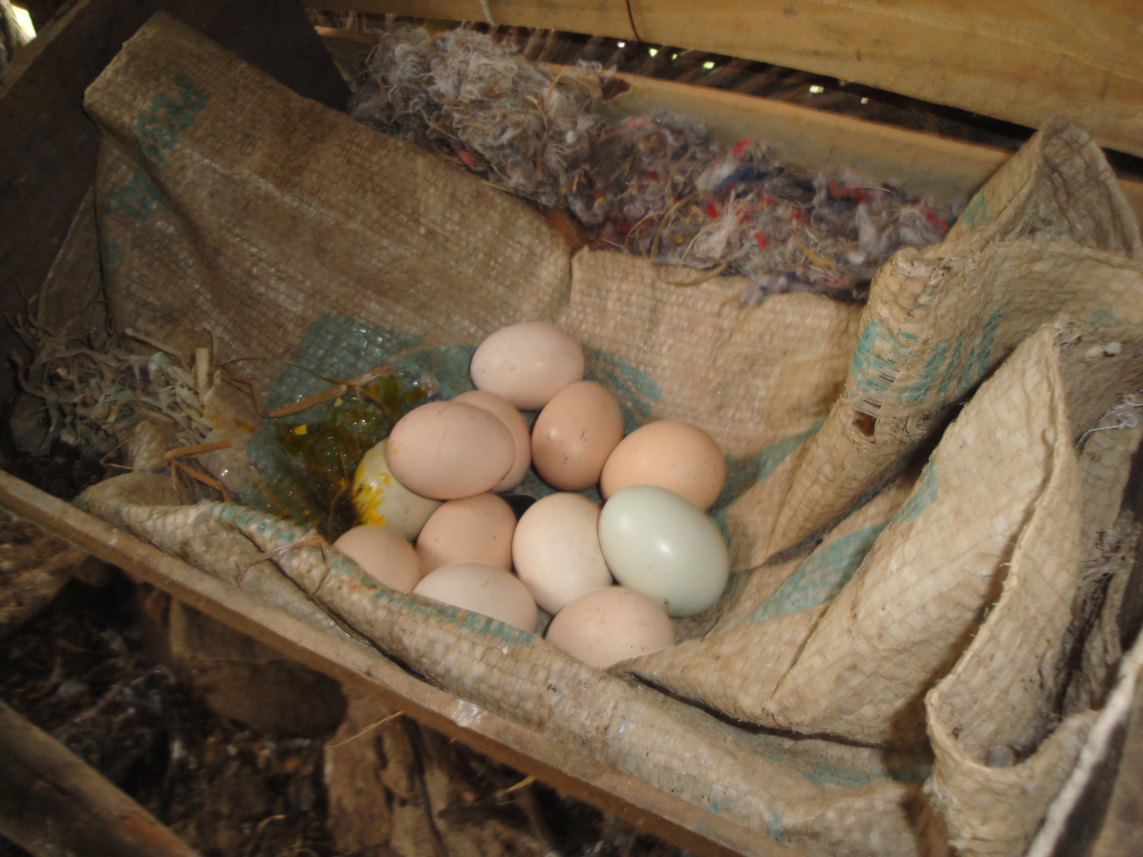 Eggs in a chicken coop.